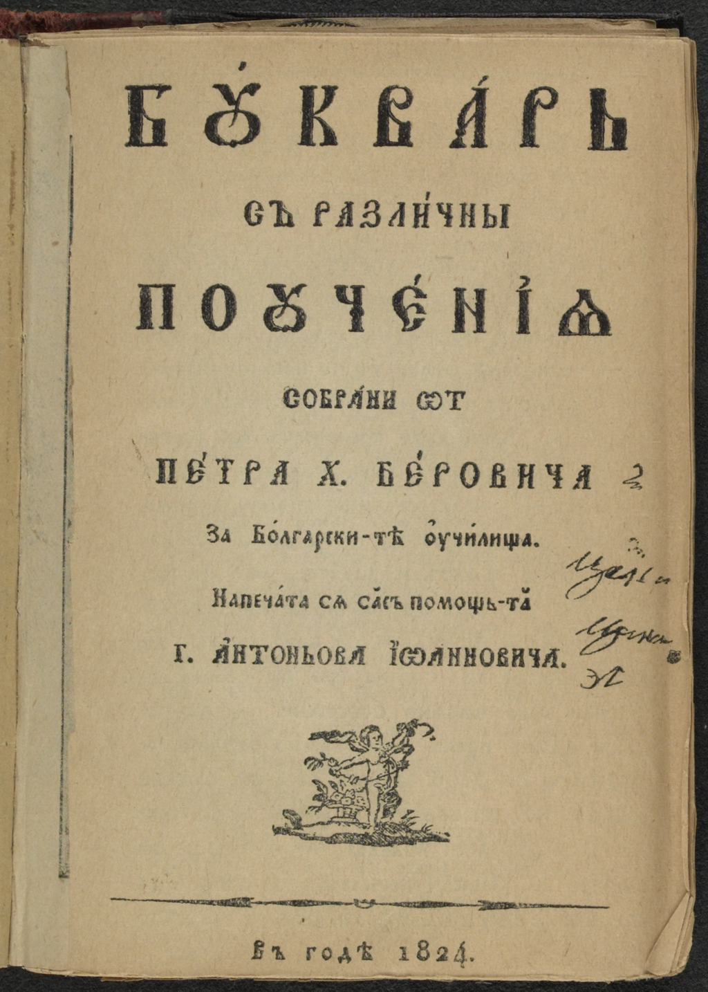 "Beron’s Primer with Various Instructions is the first modern Bulgarian primer. Used by children throughout the 19th century, it contained, in addition to the rules of grammar, general information about nature and basic arithmetic. The book is better known as the “Fish Primer” for the picture of the whale at the end. Beron is considered the father of modern Bulgarian."